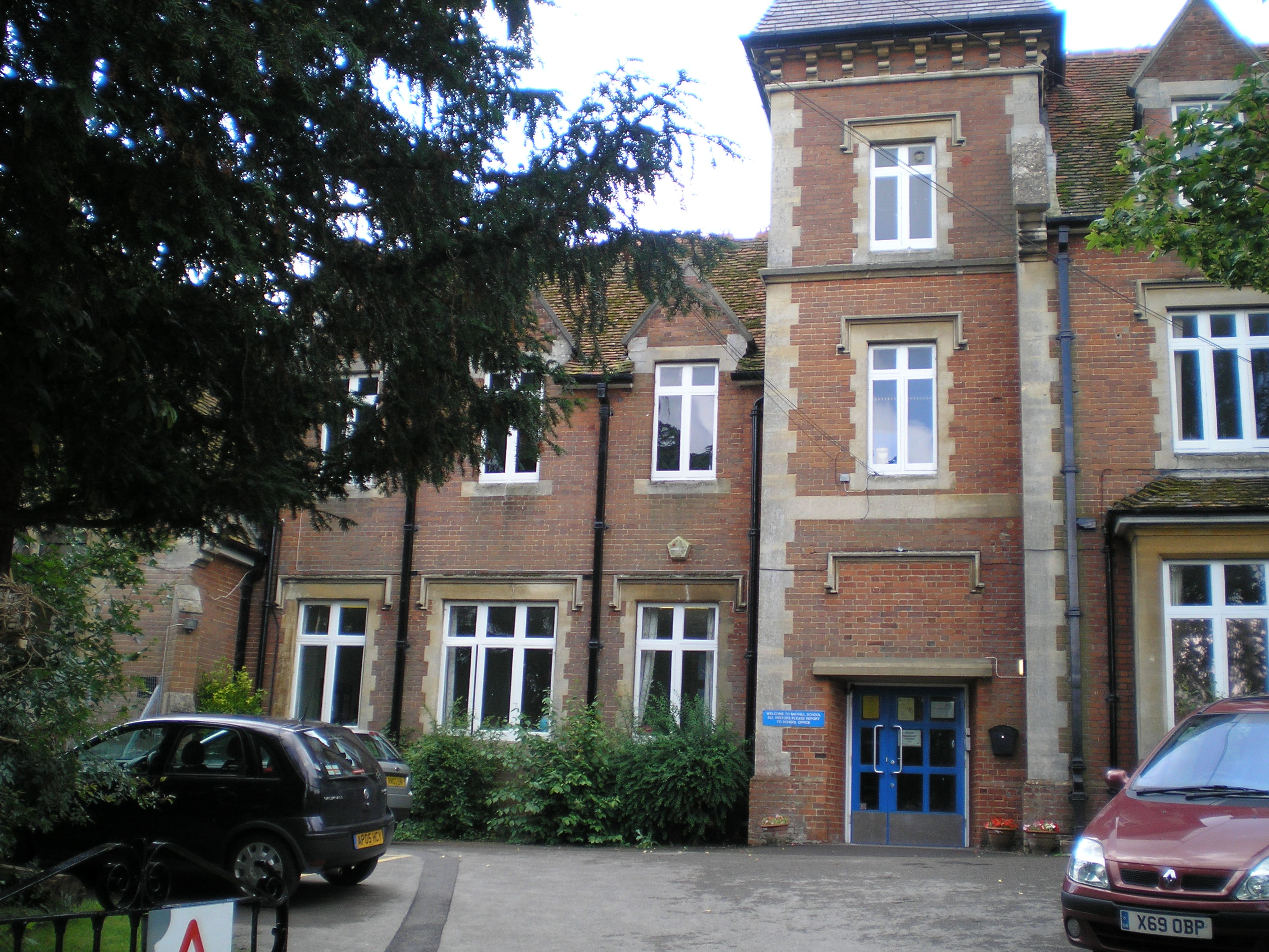 Mayhill Junior School